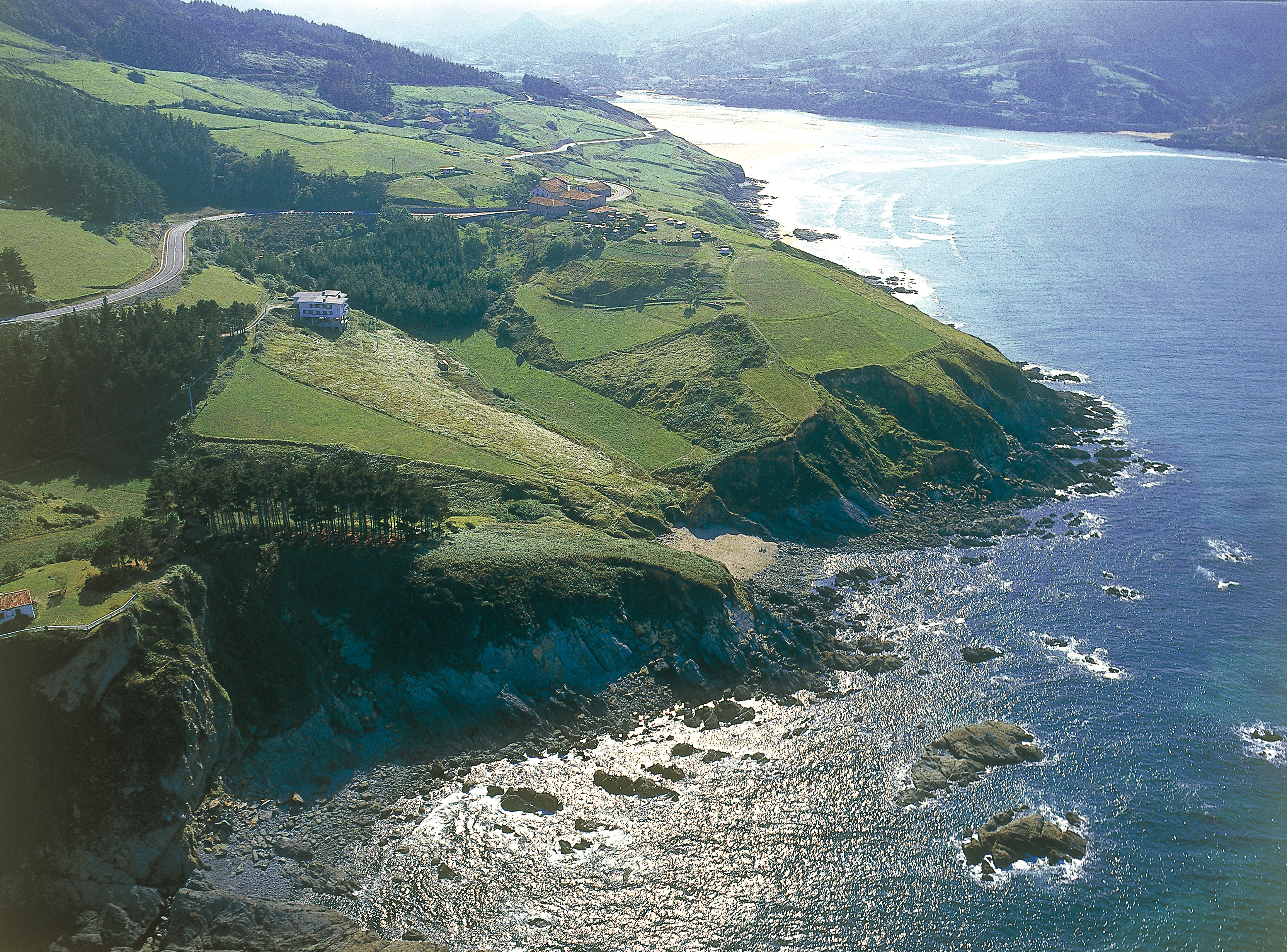 Urdaibai. Bizkaia, Basque Country.